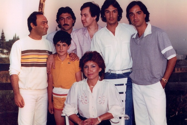 Second Generation of Rezai family. Bellair, California. 1981 (Missing in picture is Shahdad)